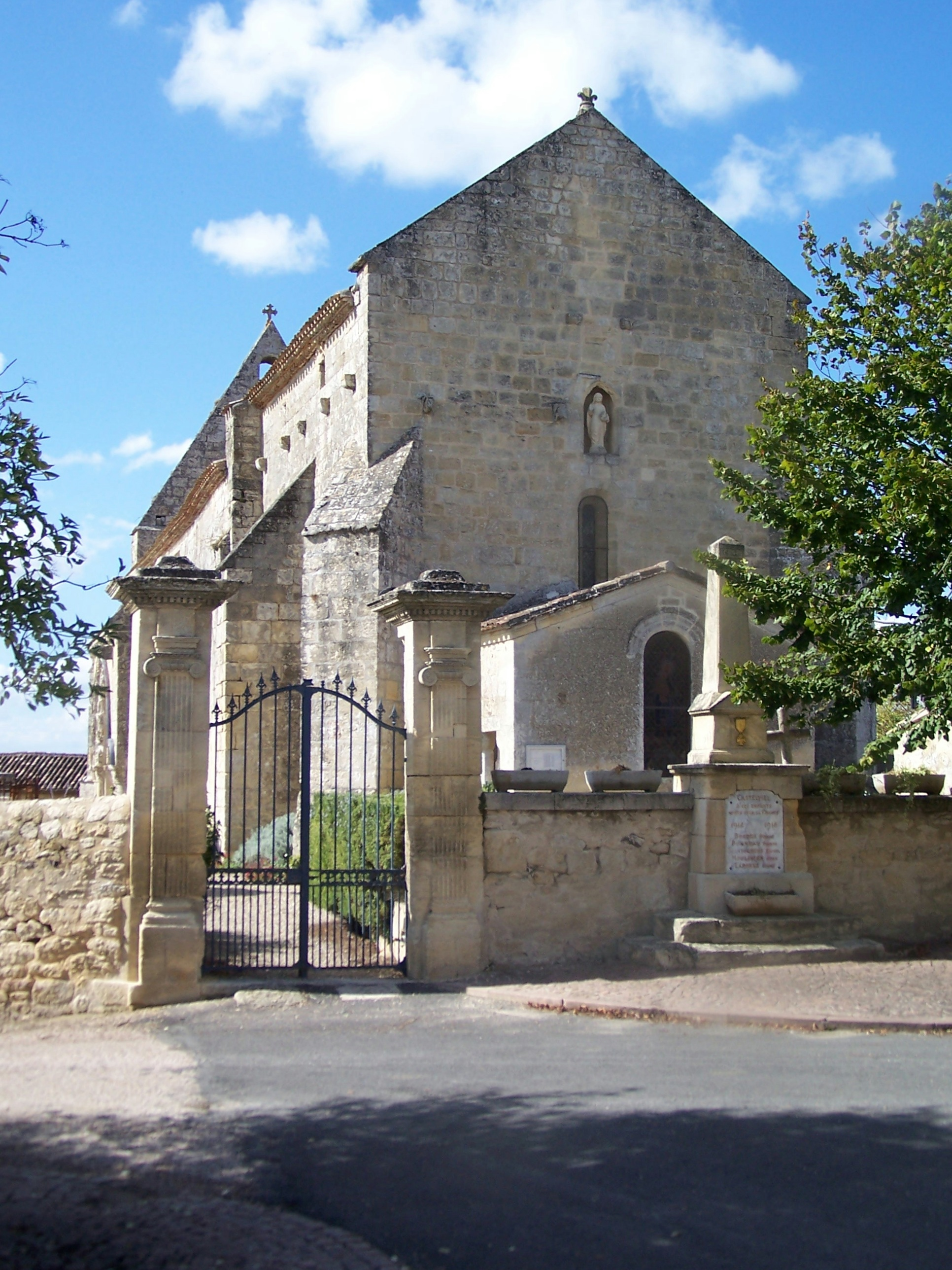 Our Lady church of Castelviel (Gironde, France)